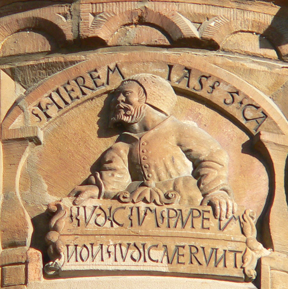 Prophet Jeremia on the "Käthchenhaus" of Heilbronn/Germany